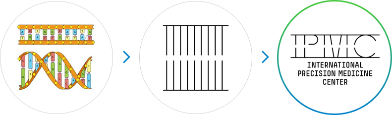 IPMC Logo used DNA structure for its design creation